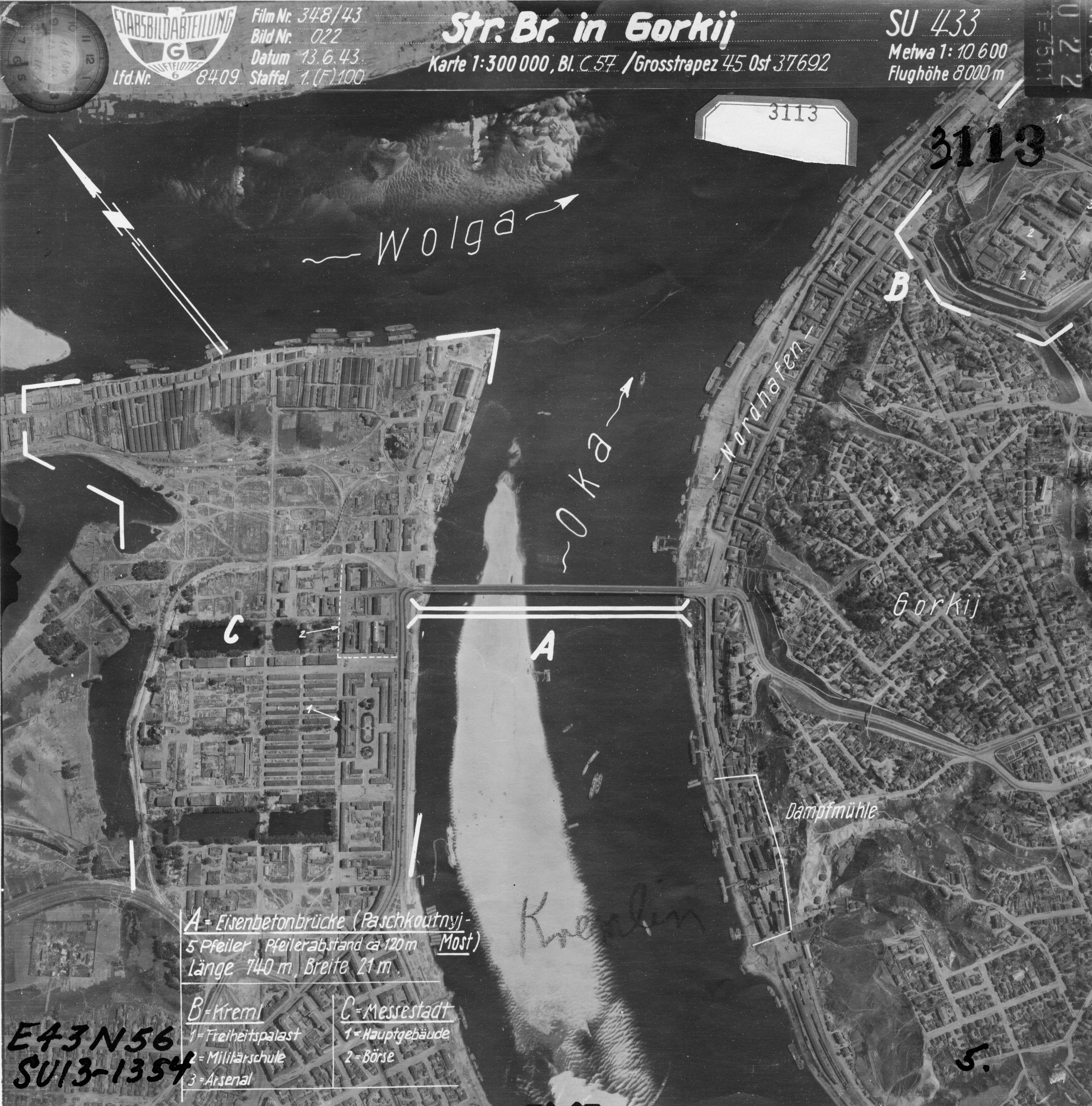 Aerial photography of the Gorky city with targets for the bombing: A — Reinforced (pontoon) bridge (5 poles, the distance between the supports ~ 120m, length 740m, width 21m); B - Kremlin (1 - Government House, 2 - Military school, 3 - Arsenal); С - Fair (1 - Main House, 2 - Exchange). Mill - white solid line.